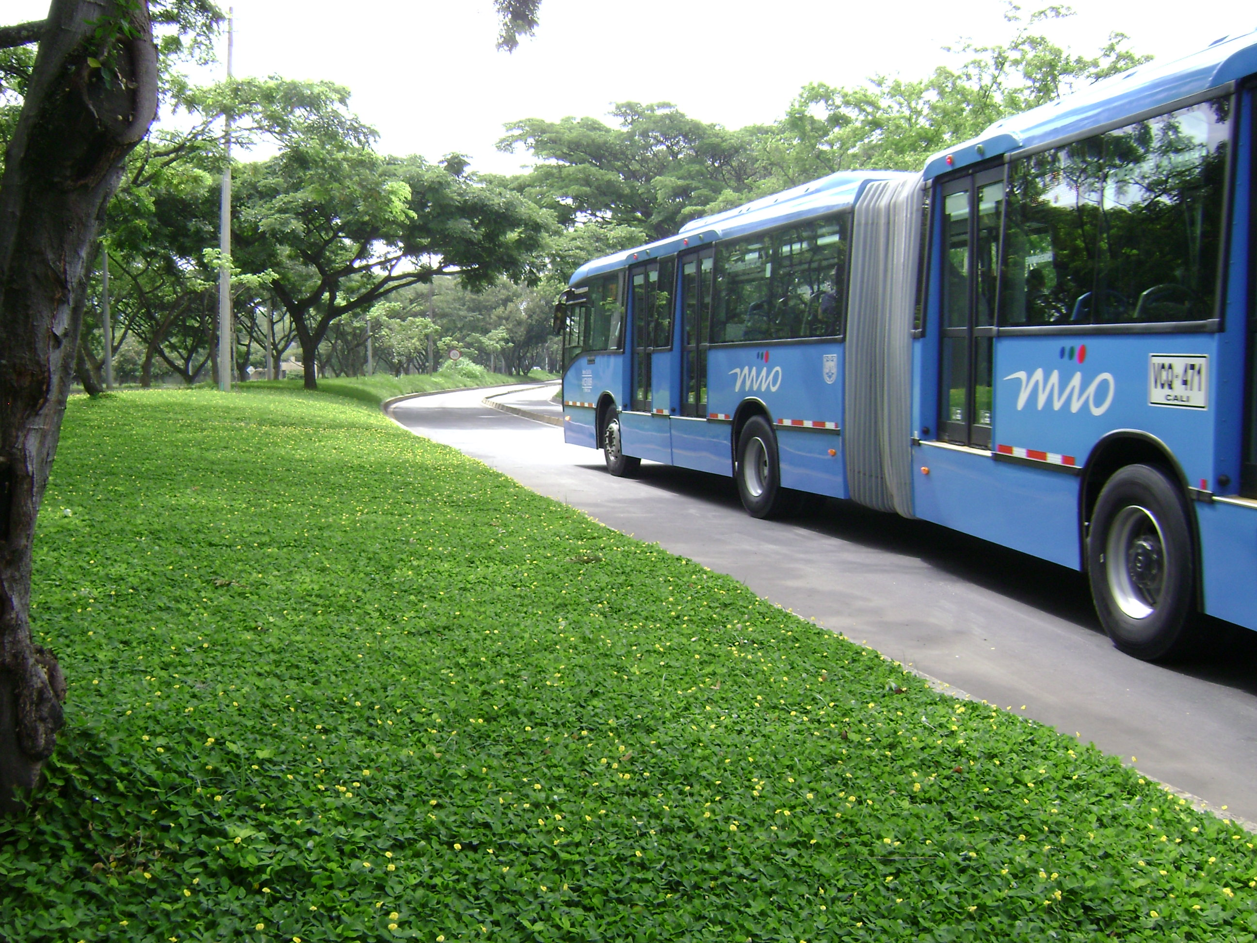 BUS RAPID TRANSIT IN CALI COLOMBIA "MIO"